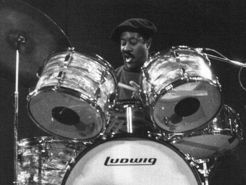 Leading blues drummer Fred Below in France.